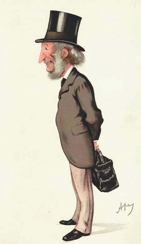 Caricature of Mr Donald Currie KCMG MP. Caption read "the Knight of the Cruise of Mr Gladstone".